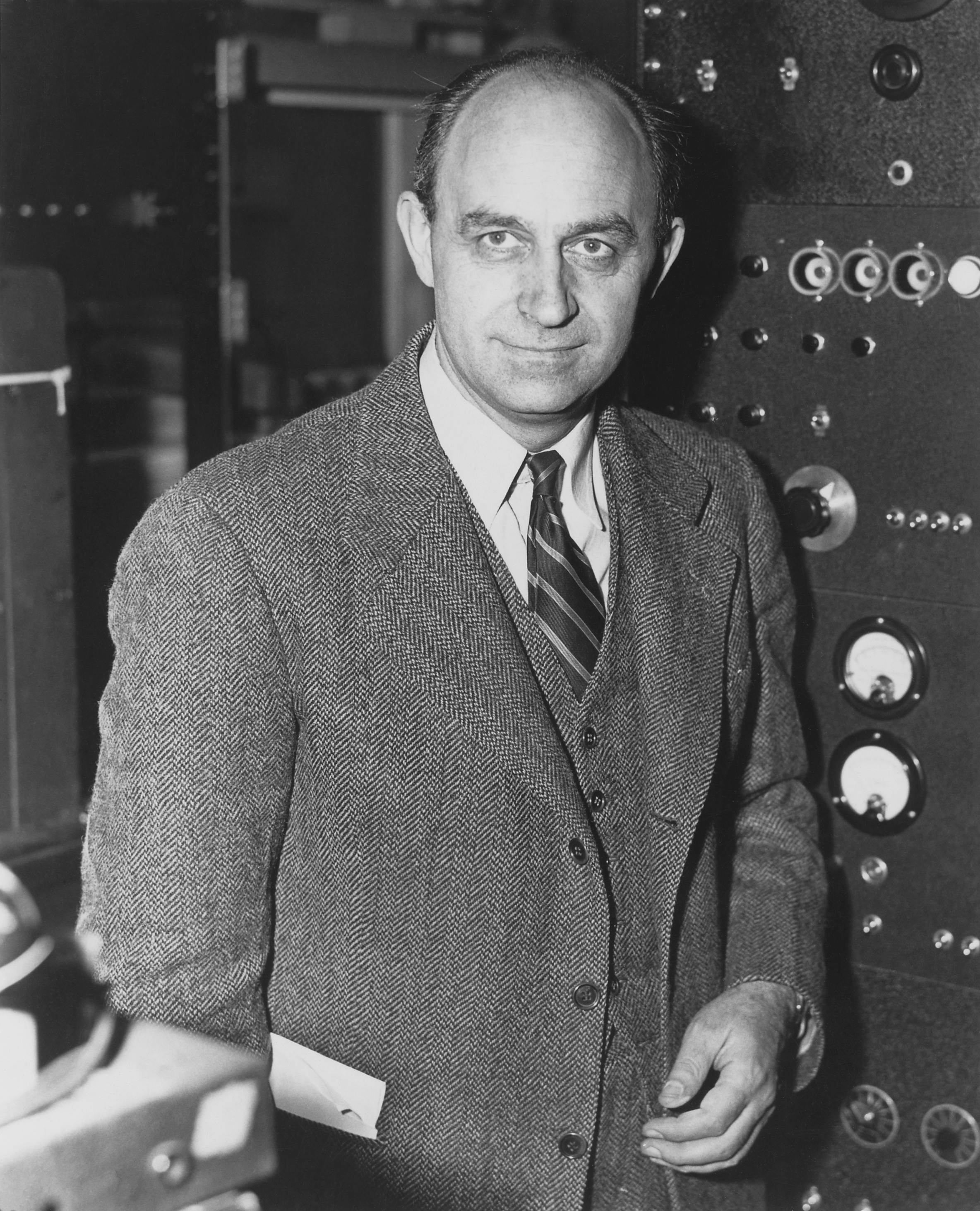 Enrico Fermi, Italian-American physicist, received the 1938 Nobel Prize in physics for identifying new elements and discovering nuclear reactions by his method of nuclear irradiation and bombardment. He was born in Rome, Italy, on September 29, 1901, and died in Chicago, Illinois, on November 28, 1954.